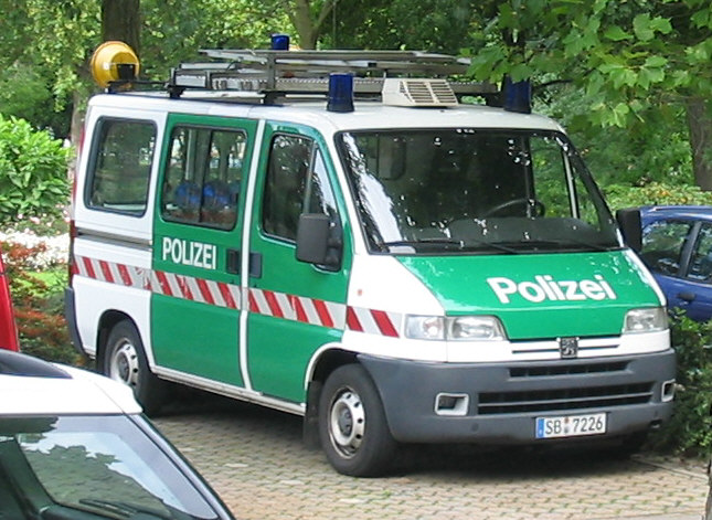 A Peugeot Boxer police car with equipment for traffic accidents, operated by the German Saarland Police.